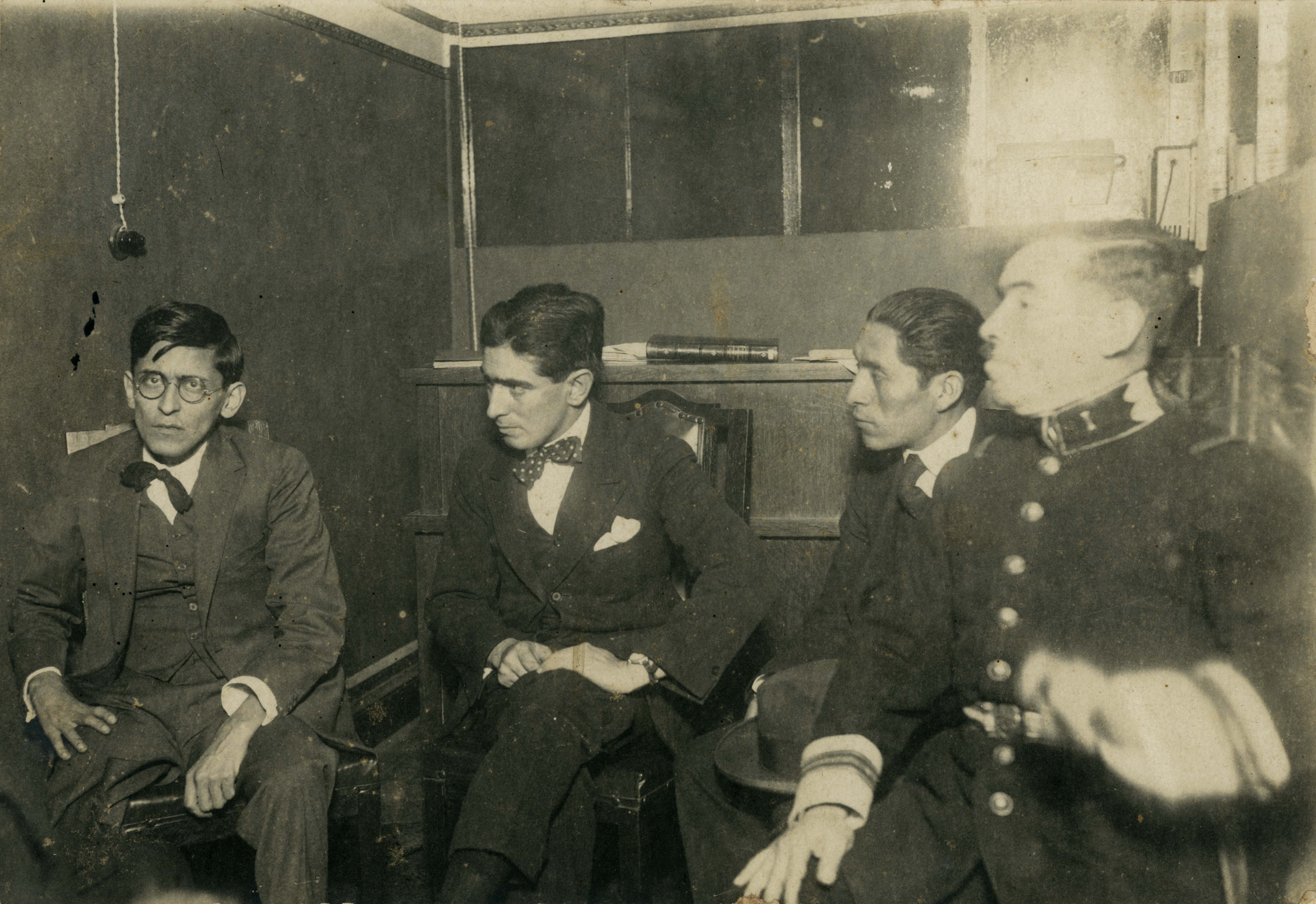 PE PEAJCM JCM-F-03-04-057